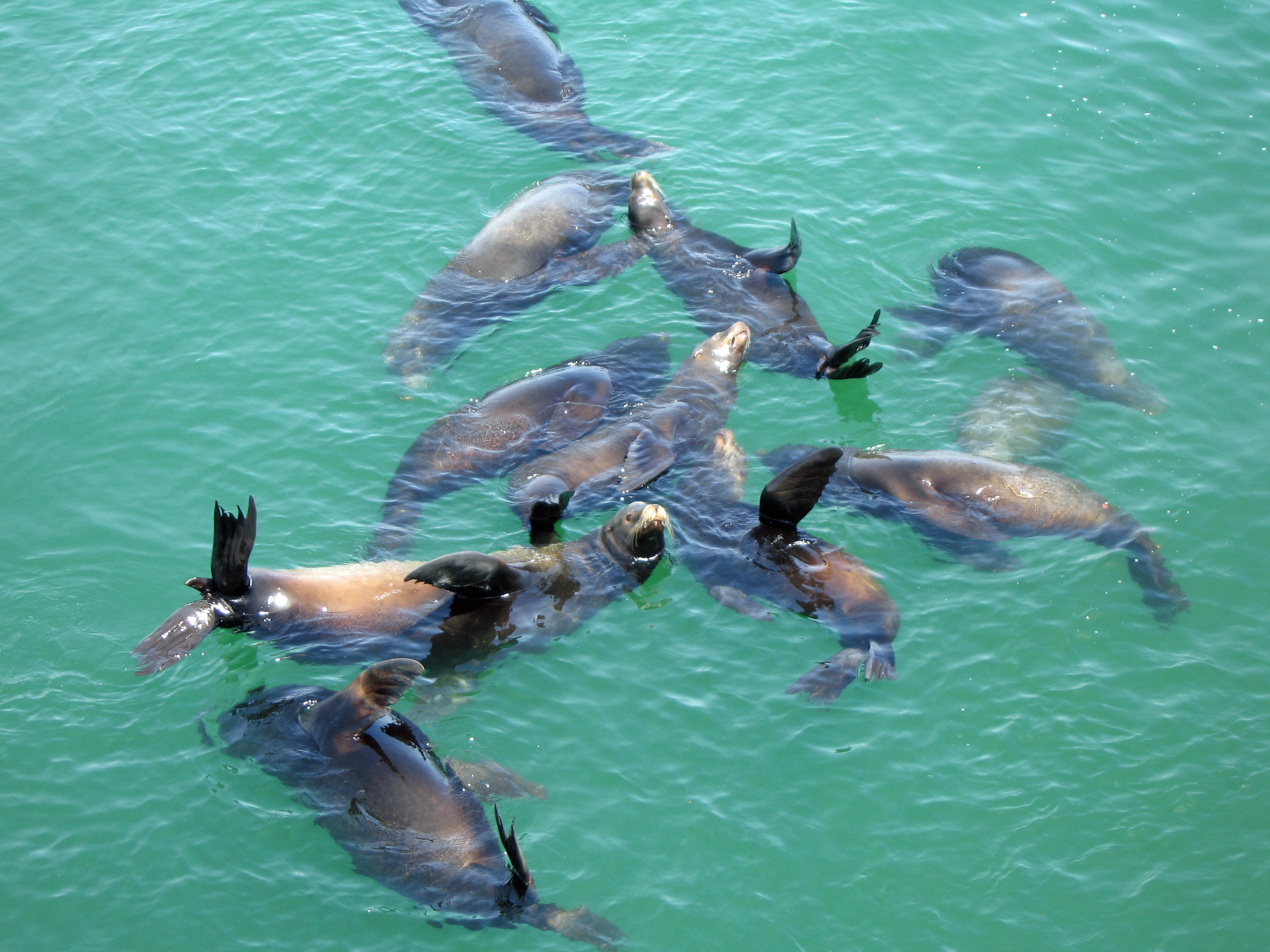 California Sea Lions at Santa Cruz